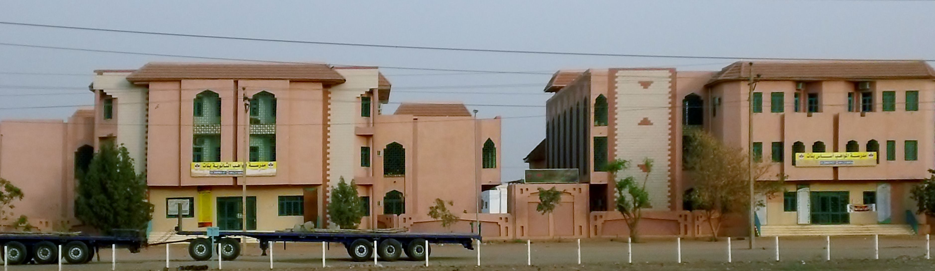 مدارس المواهب كافوري – الخرطوم بحري - السودان